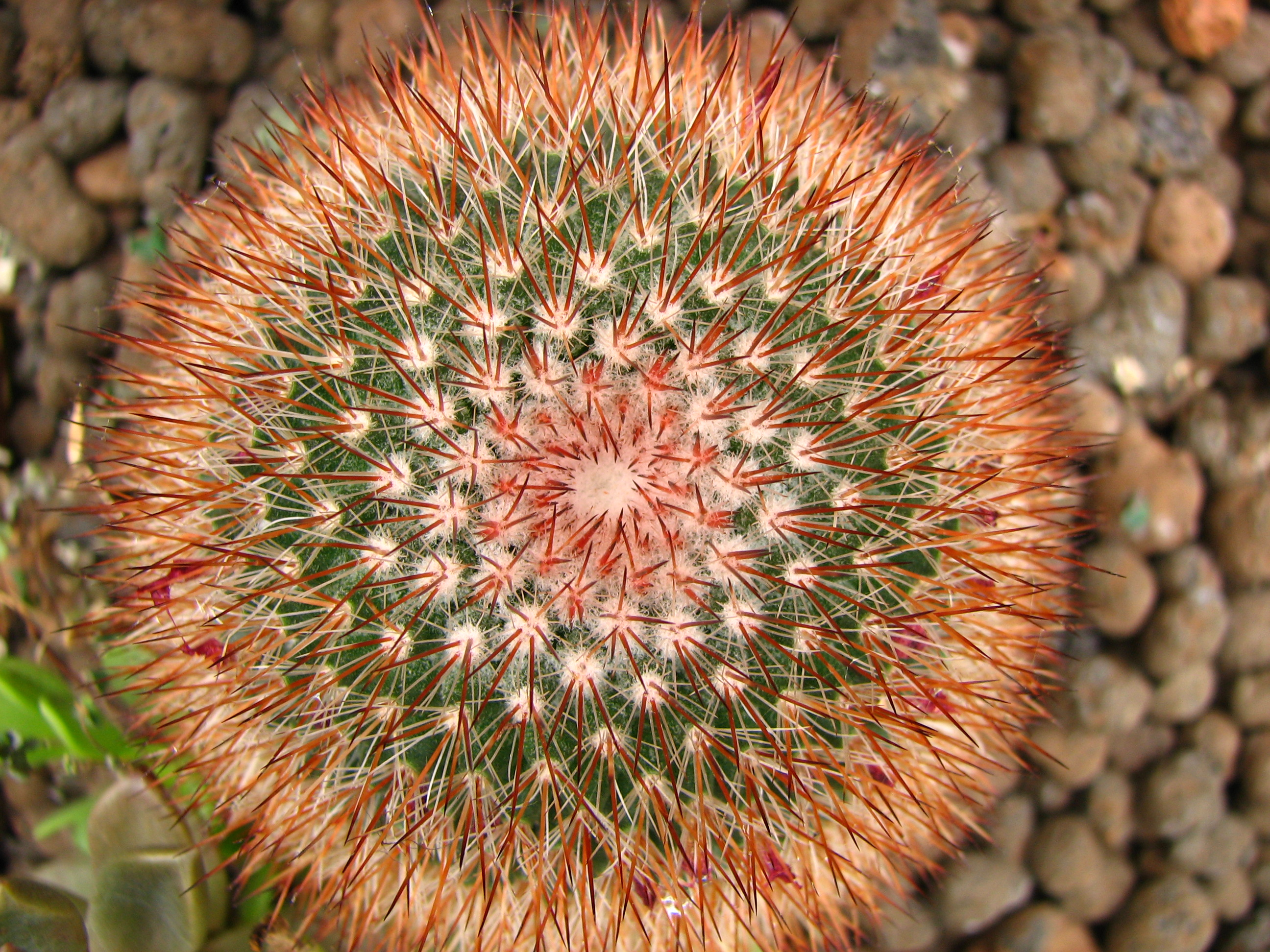 Cactus in Helsinki Winter Garden (Talvipuutarha).